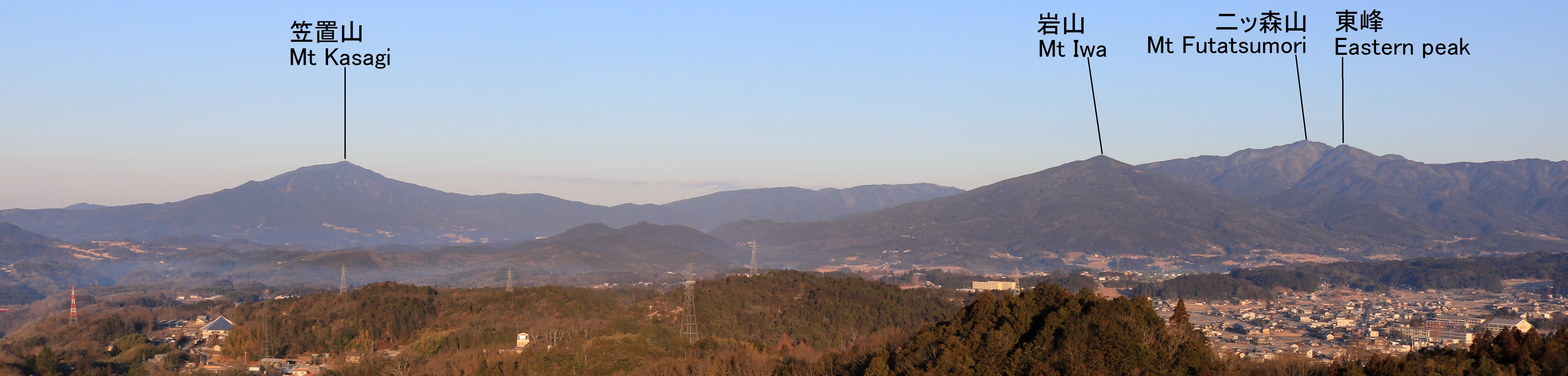 Mount Kasagi and Mount Futatsumori seen from Naegi Castle in Gifu Prefecture, Japan.